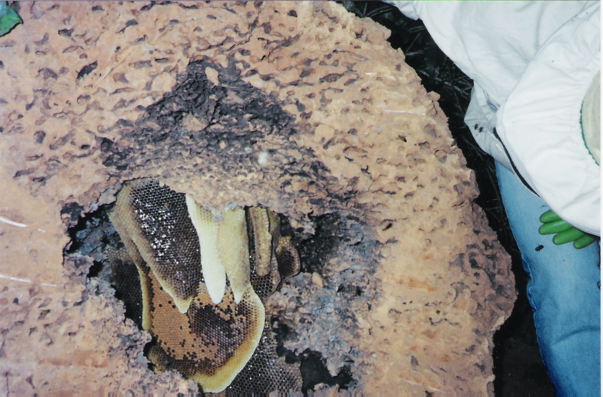 Wild honeybees (Apis mellifera) in Viçosa city, state of Minas Gerais in Brazil.